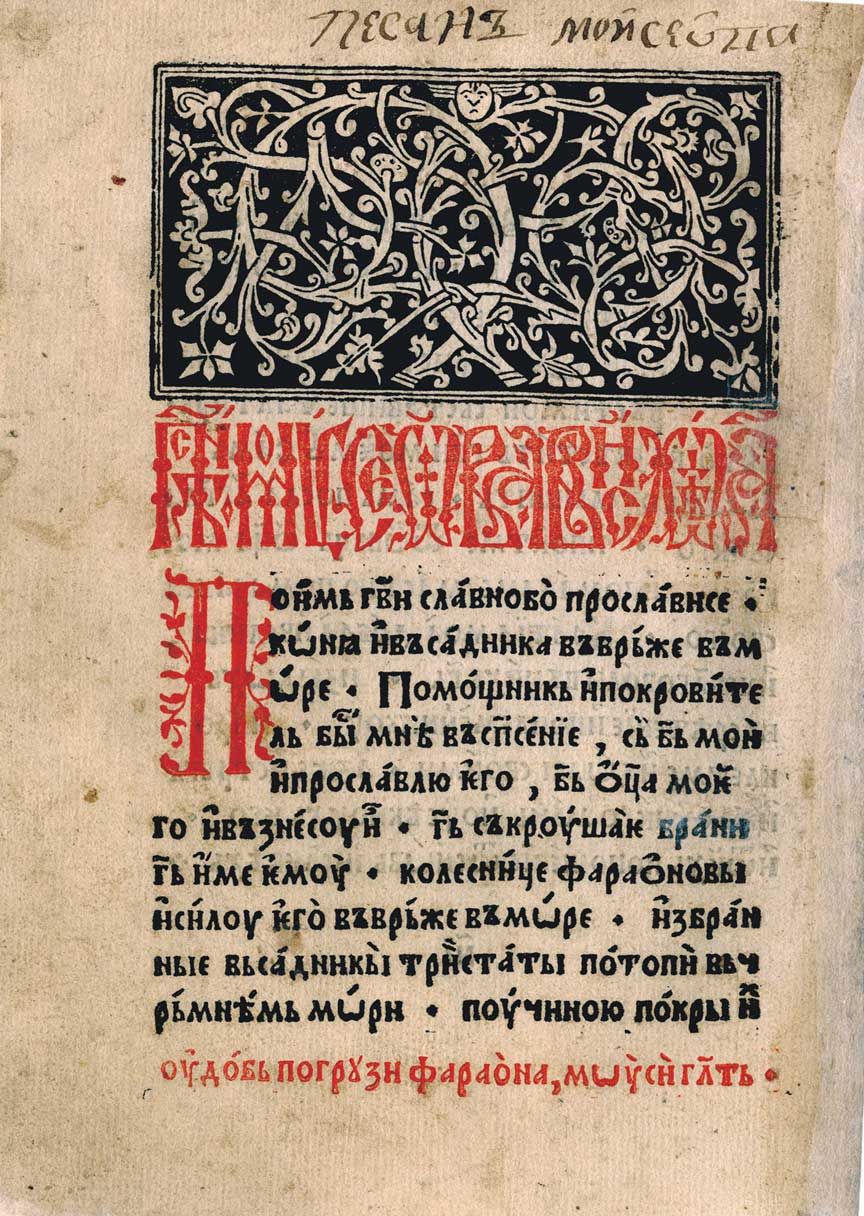 Folio 137 verso of the Goražde Psalter, one of the earliest printed books in the Serbian recension of Church Slavonic